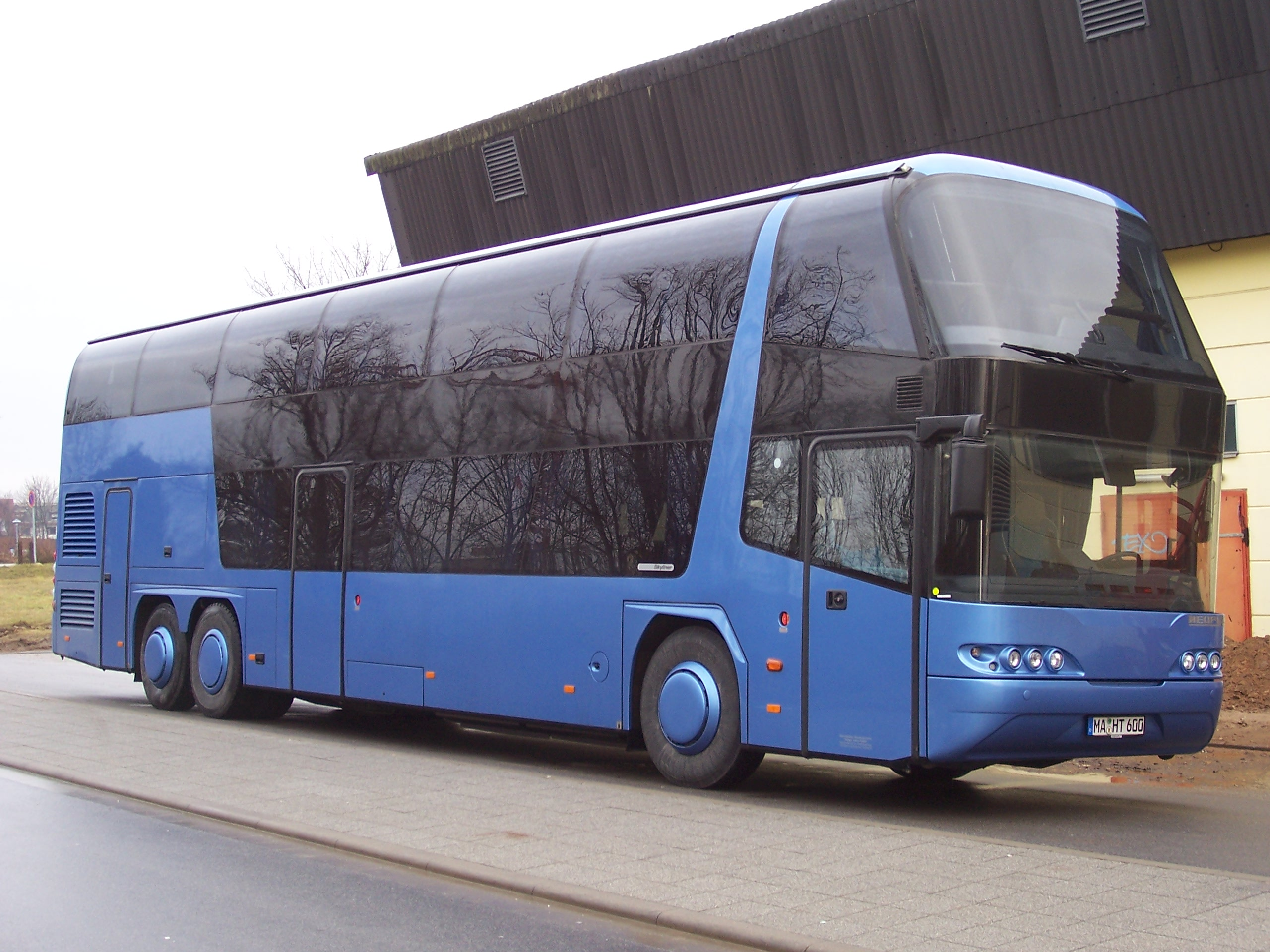 A Neoplan double-decker bus in Viernheim, Germany My own photo